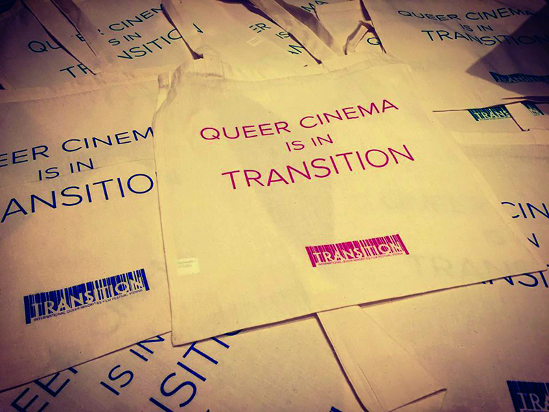 Transition Queer & Queer Minorities Festival